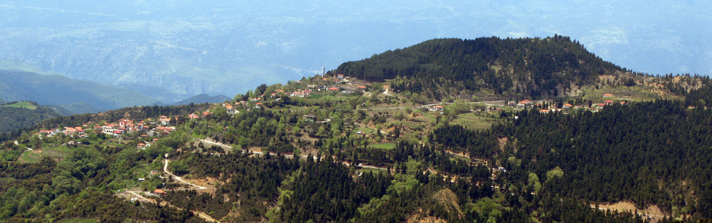 Granitsa Evrytanias